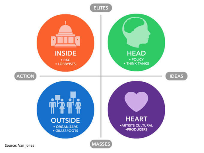 Van Jones - Why is art important?